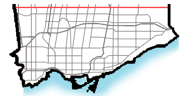 Map of Steeles Avenue in Toronto and York Region